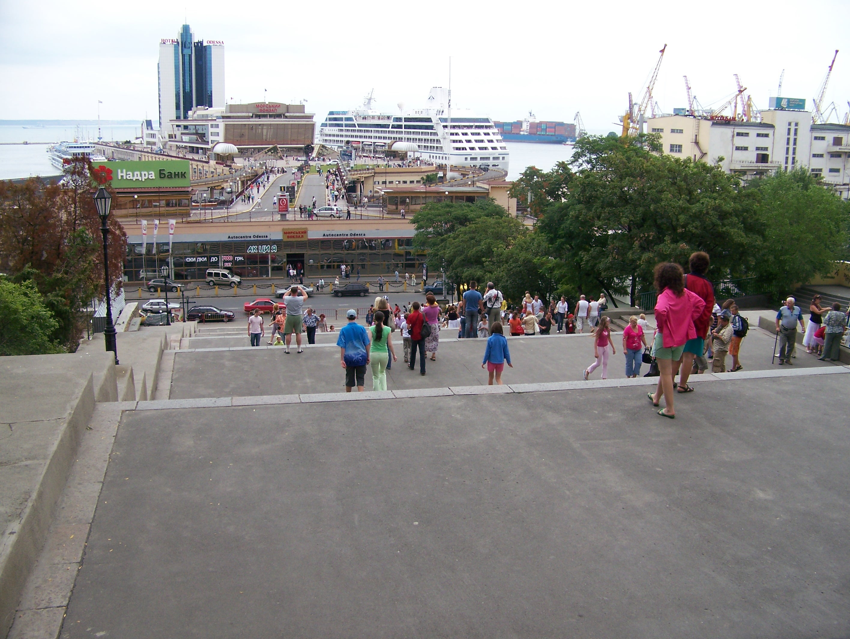 A view of the Potemkin Steps in Odessa from the top